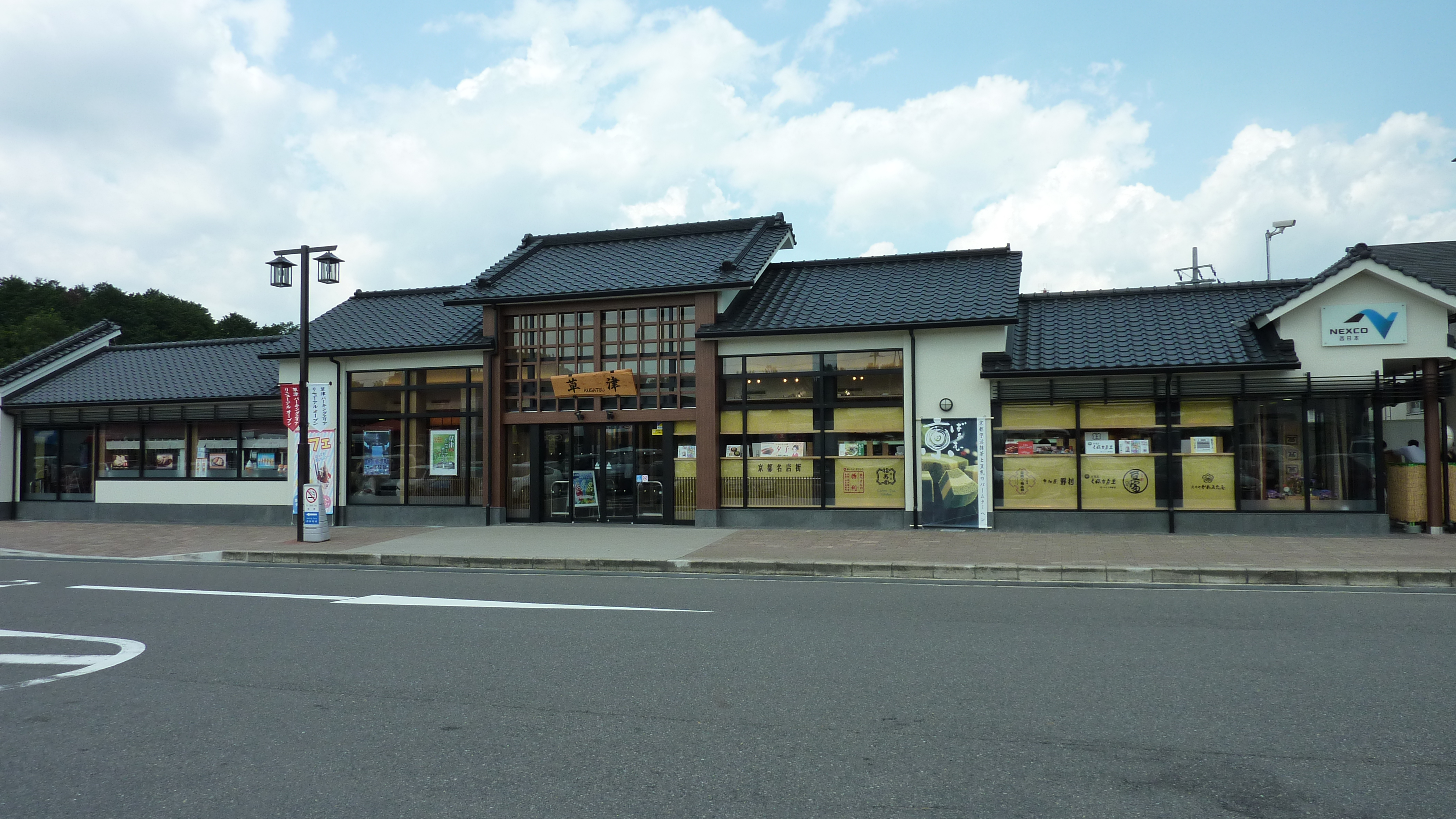 This is Meishin expressway Kusatsu parking area (up line).